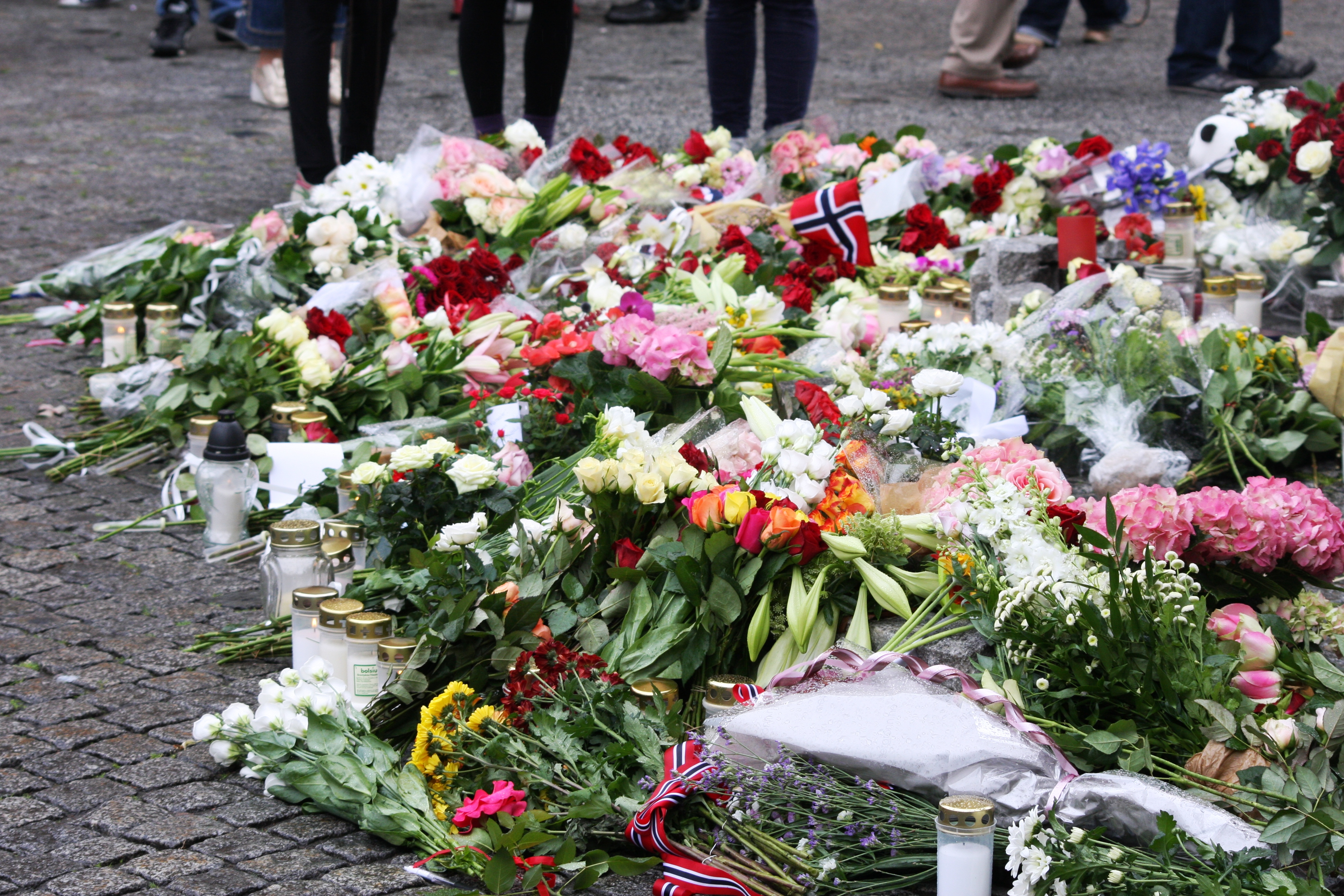 Oslo the day after. Flowers in front of the Oslo cathedral.